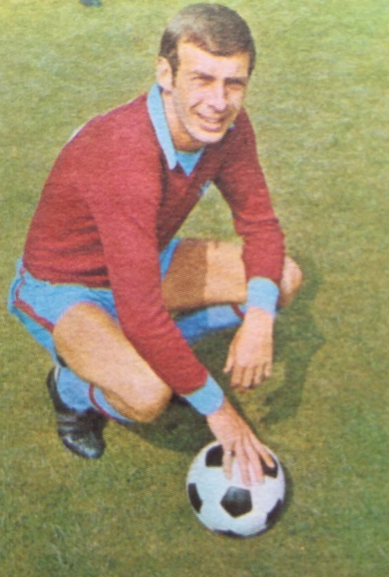 Footballer Barrie Hole in Aston Vill Kit